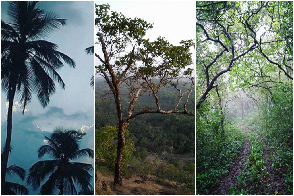 Vitla